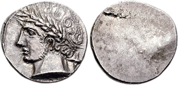 Italy,Etruria, Populonia. 3rd century BC. AR 10 Asses (4.21 g). Laureate head of Aplu left; X (mark of value) behind Club. Vecchi III 21 (same obv. die); HN Italy 168 var. (club not noted). EF, toned. Exceptional for issue. "Extremely rare, Vecchi records a single example with club reverse (in Berlin)."